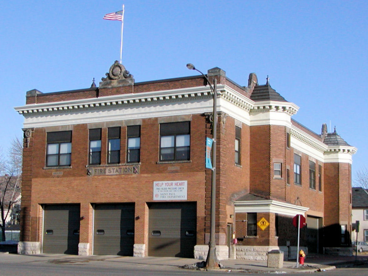 Fire station in Saint Paul, Minnesota on University Avenue